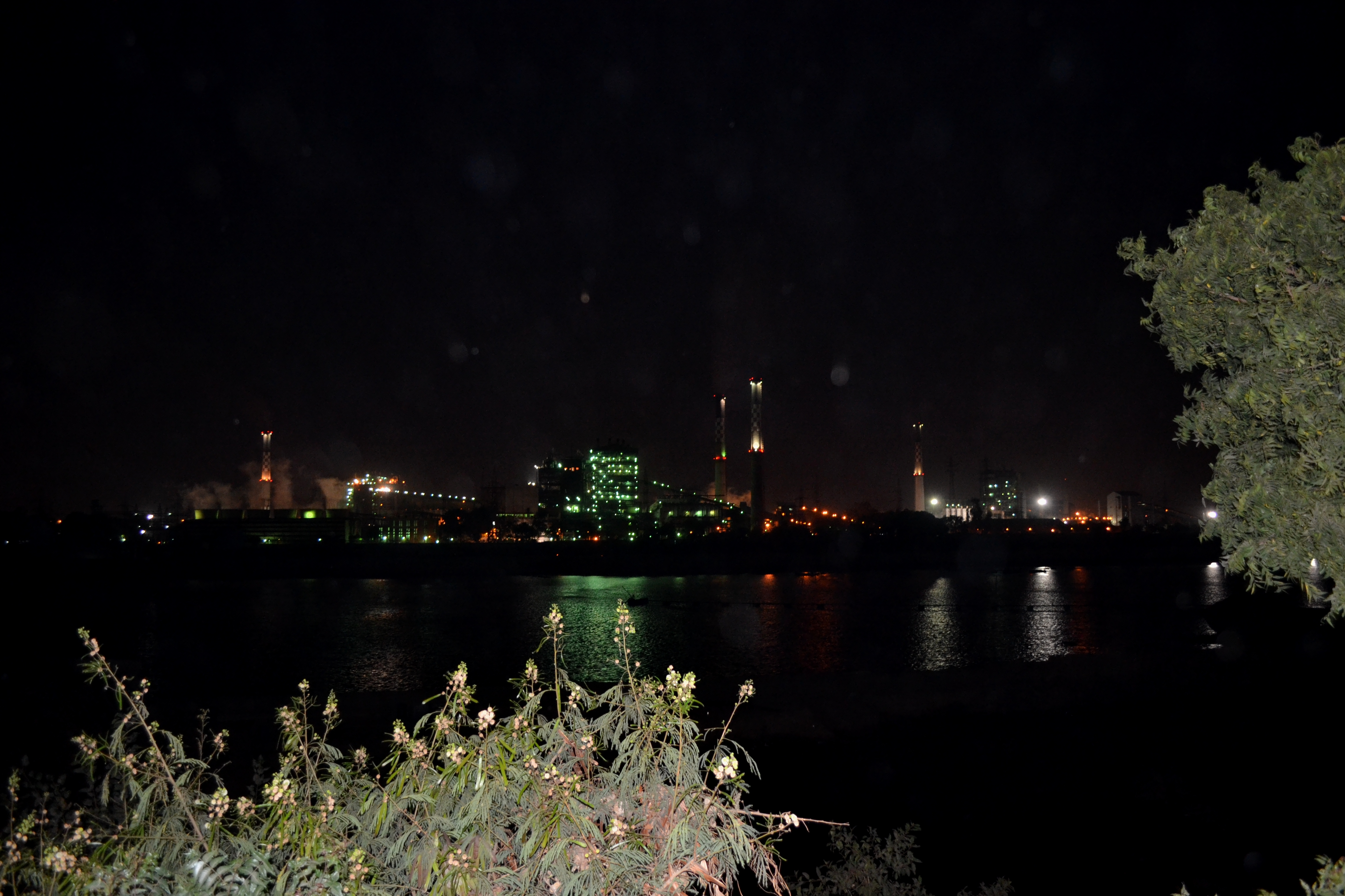 The view of Torrent power station on the bank of Sabarmati in Ahmedabad at night.